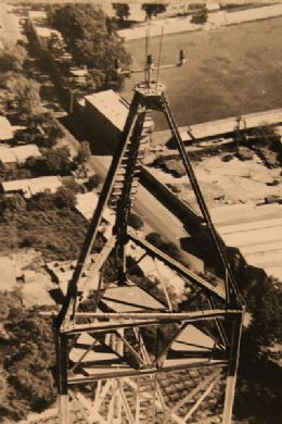 The LV1 Radio Antenna Columbus in 1942